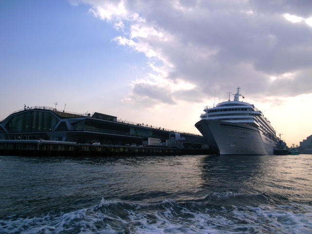 Yokohama port Osanbashi with Asuka II.